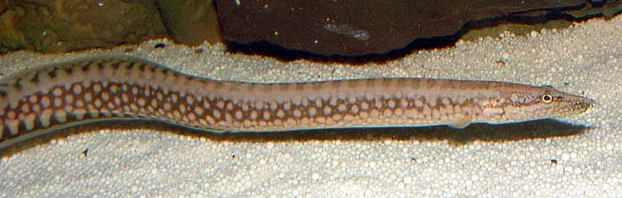 Mastacembelus moorii (Syn. Caecomastacembelus moorii) Poisson anguiliformes.